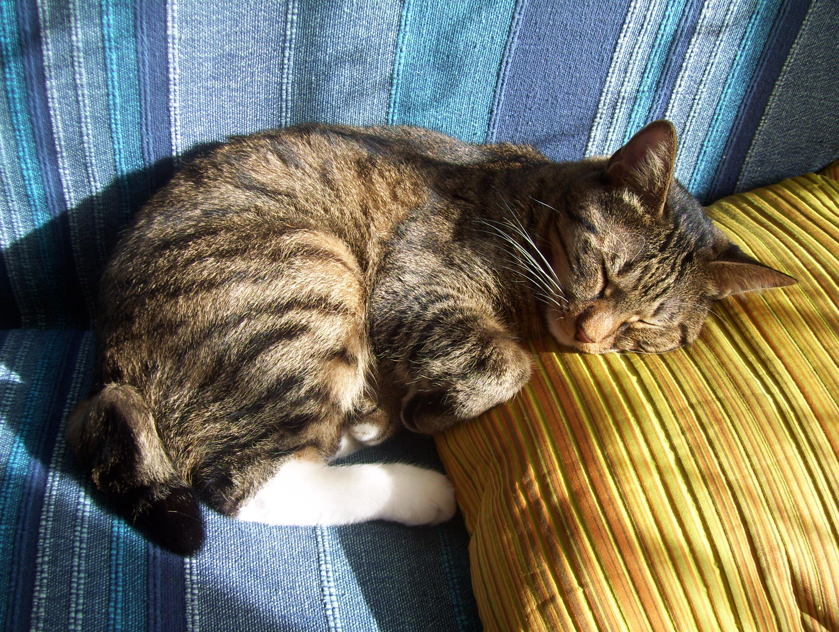 The cat sleeps on the sun:)